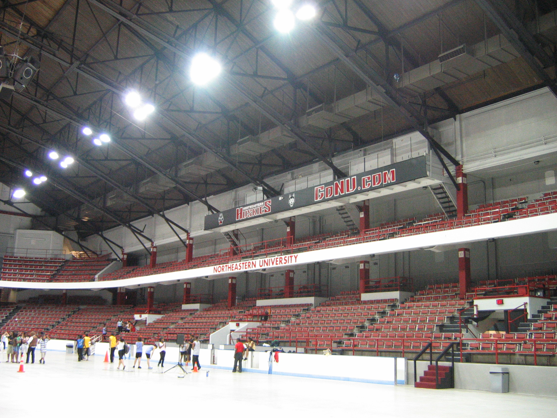 Football & Basketball Facilities Northeastern Hockey Arena